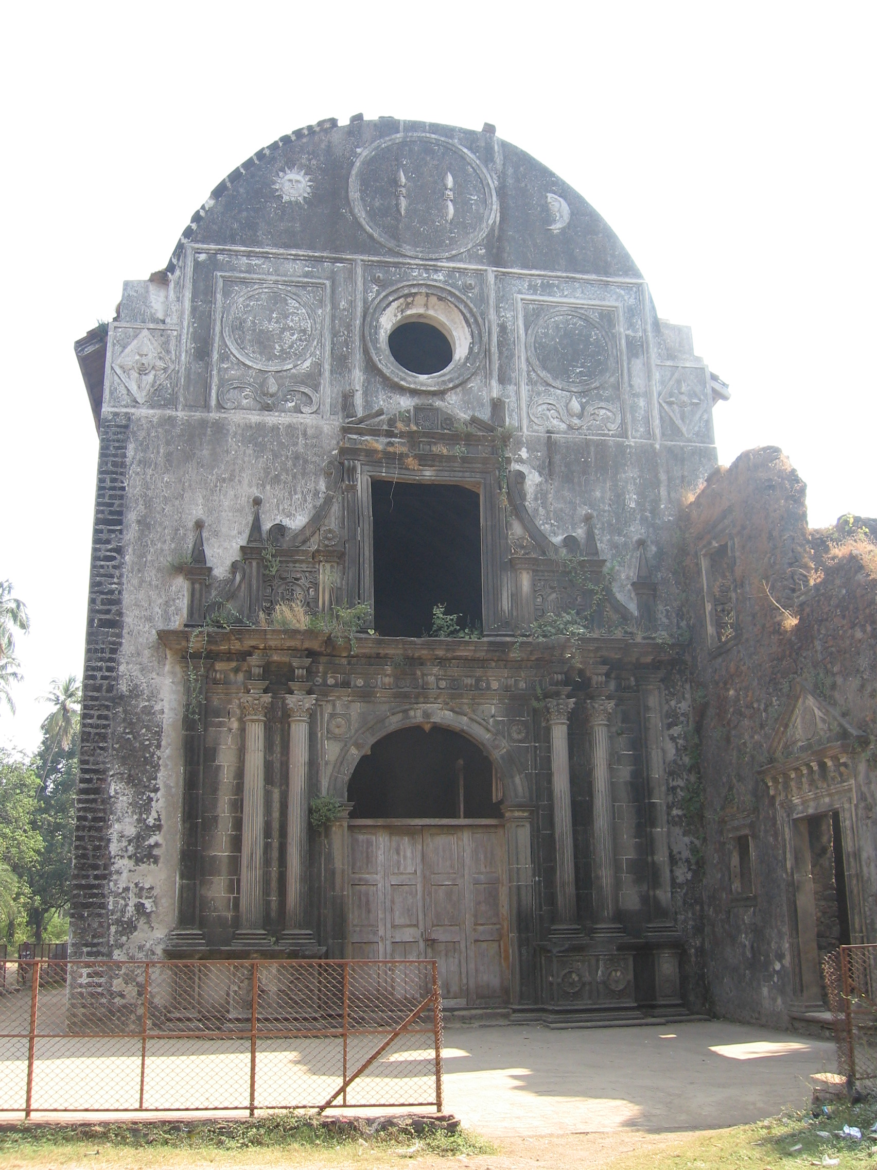 Within the fort of Bassein (Vasai) near Bombay, the ruins of the Jesuit church, which was part of the school complex